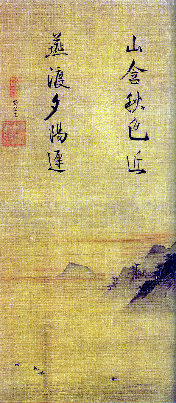 "Sunset Landscape" painted by Ma Lin. Now preserved in Nezu Art Museum, Tokyo. Ink and color on silk. 51.5 x 27 cm. See Barnhart, R. M. et al. (1997). Three thousand years of Chinese painting. New Haven, Yale University Press. ISBN 0-300-07013-6